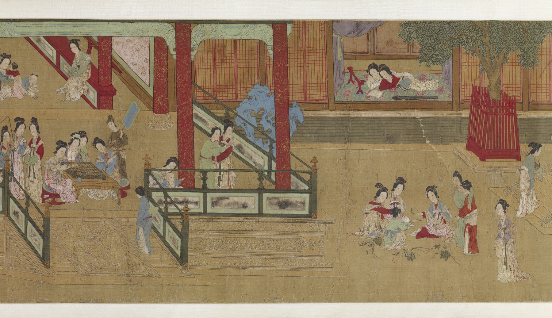 This is a copy of a famous handscroll by the Ming [Ming] Dynasty artist Qiu Ying [Ch'iu Ying]. It depicts imperial life at its most idyllic. During the years of the Qing [Ch'ing] Dynasty, copies of Qiu Ying's painting were popular because they were an excellent guide to elegant behavior.